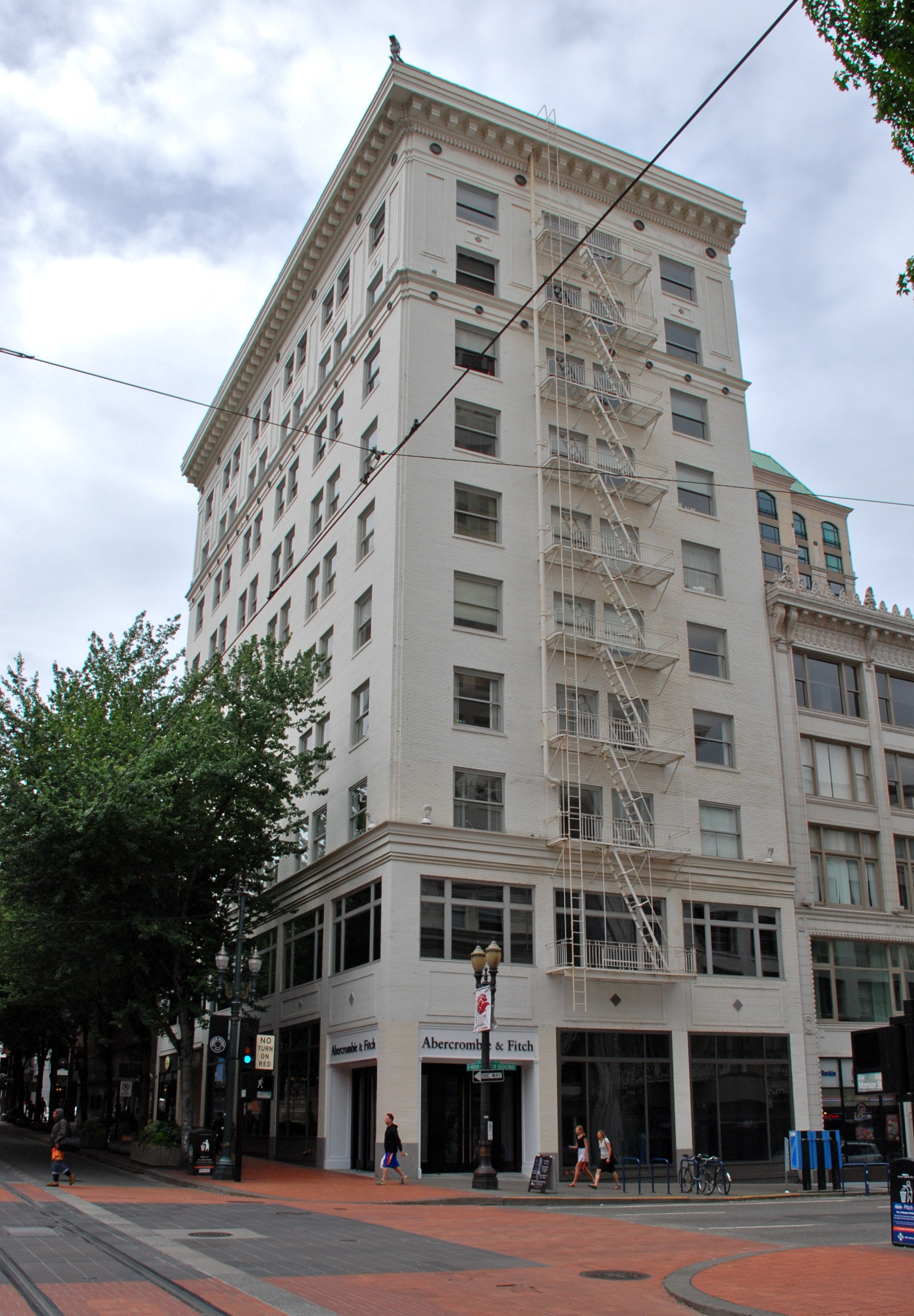 The Broadway Building, located at the northwest corner of Morrison Street and Broadway in downtown Portland, Oregon.